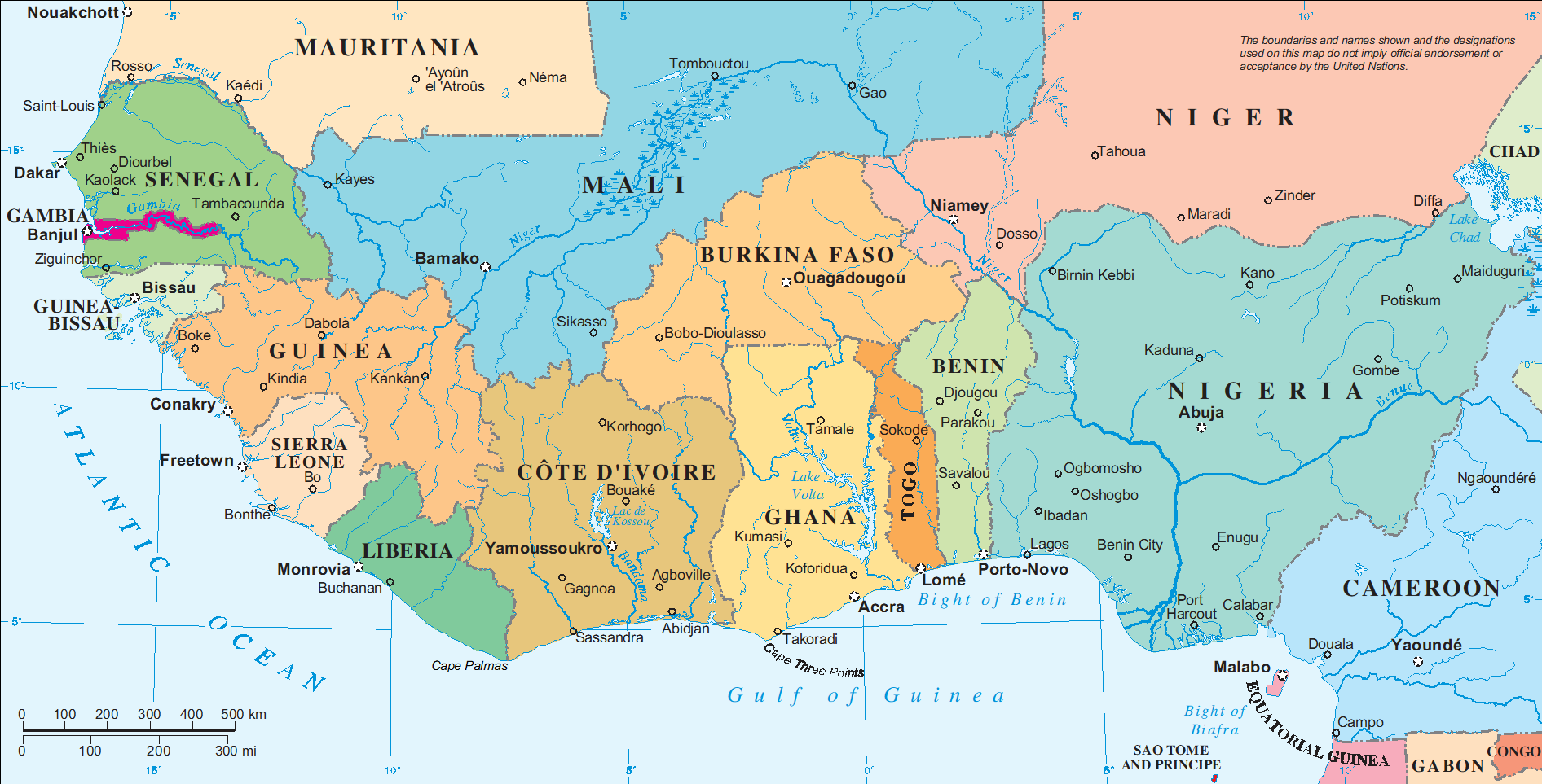 Political Map of West Africa